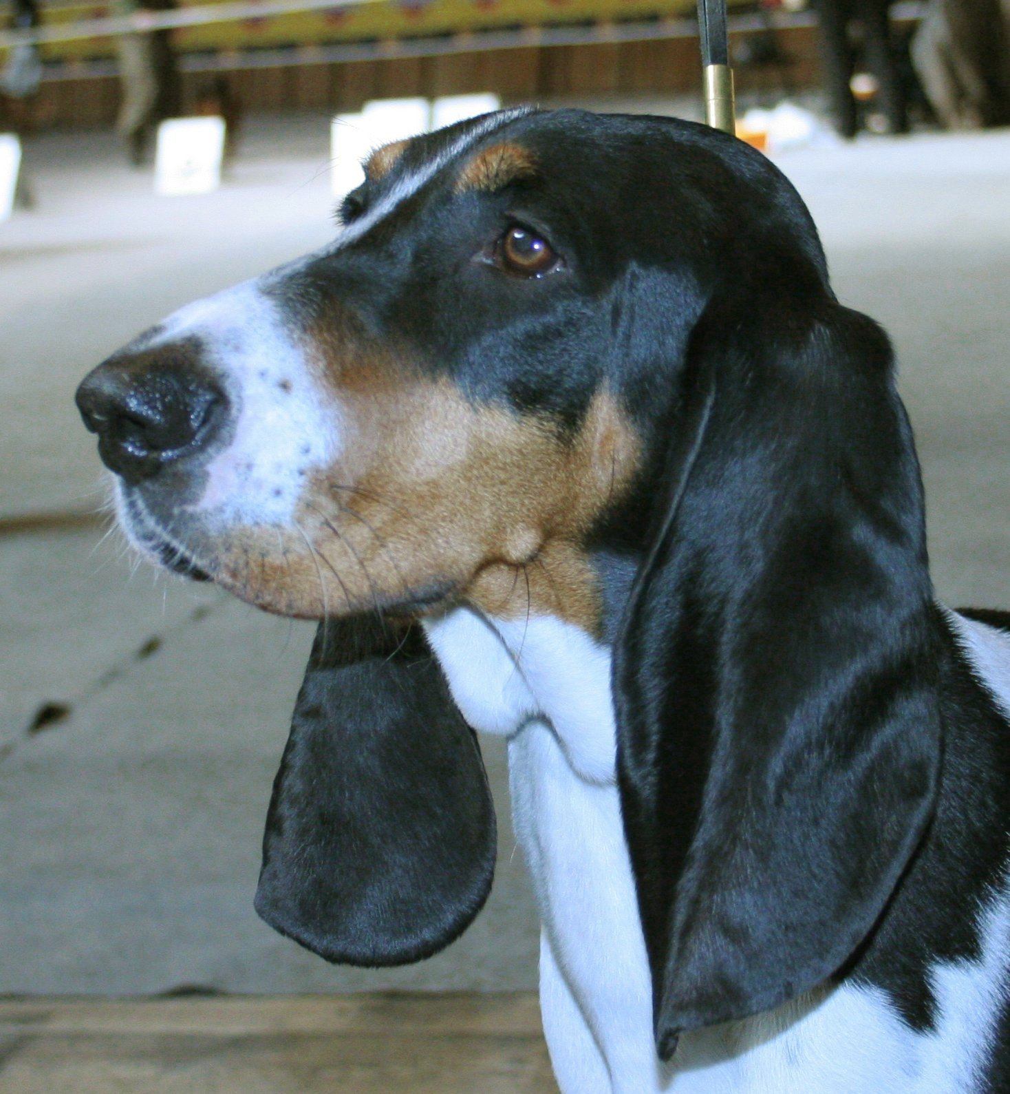 Bernese Hound during dogs show in Katowice, Poland